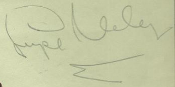 Lupe Vélez signature.